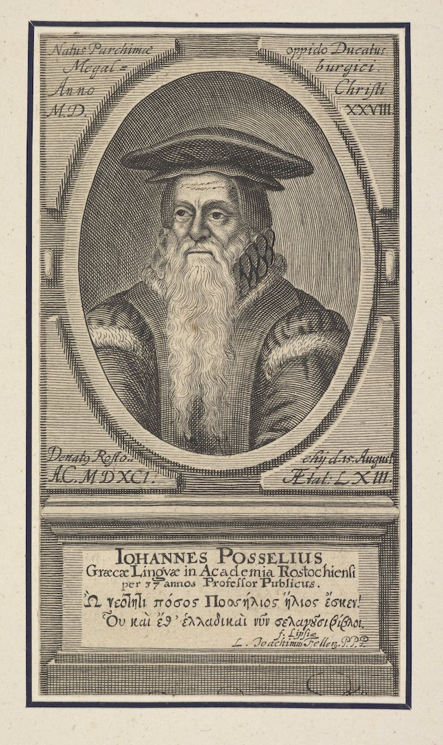 A portrait of Johannes Posselius the Elder (1528-1591). Digital copy of a graphic work in collections of National Library of Poland.